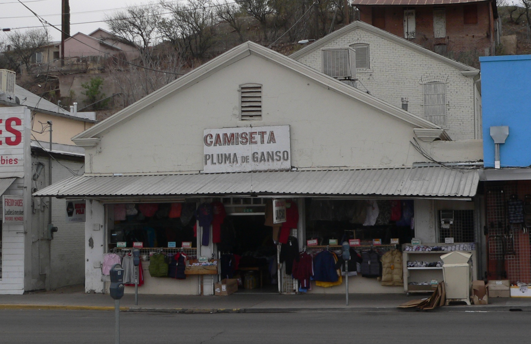 Dos Naciones Cigar Factory, located at 204 Morley Avenue in Nogales, Arizona.